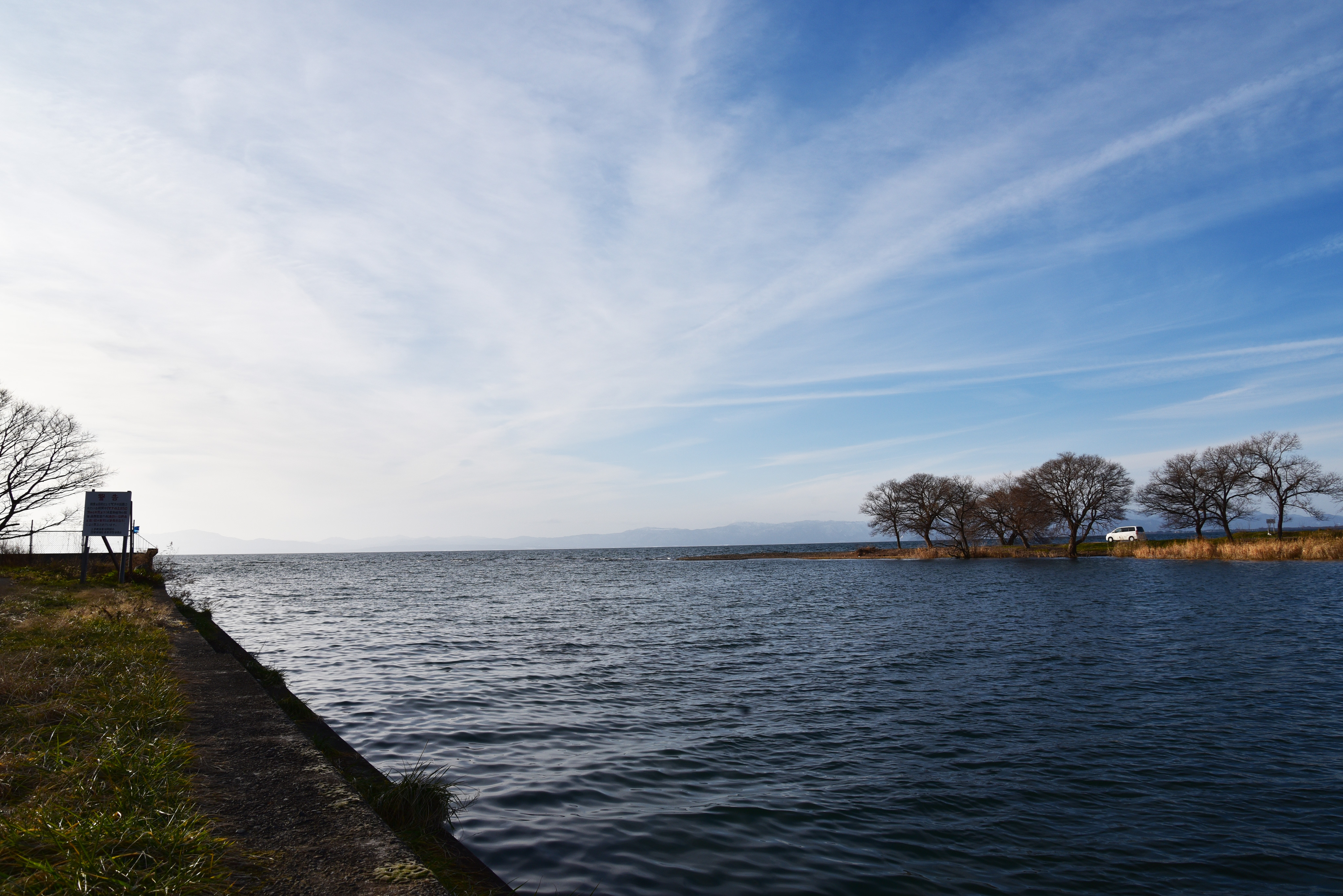 This picture is not art. This is the mouth of the river Amama. It is called Asashi.